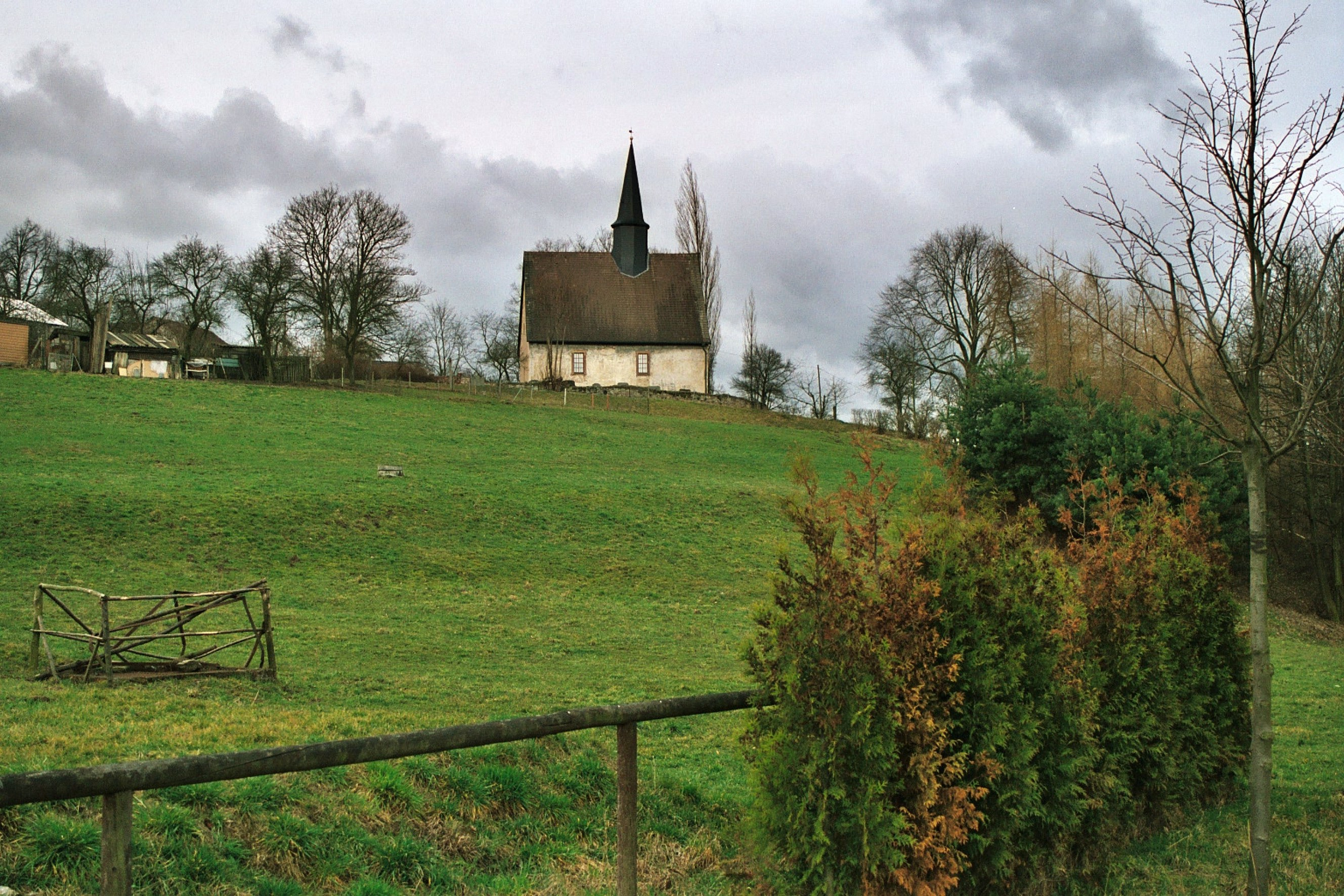 Tautendorf (Thüringen), the village church